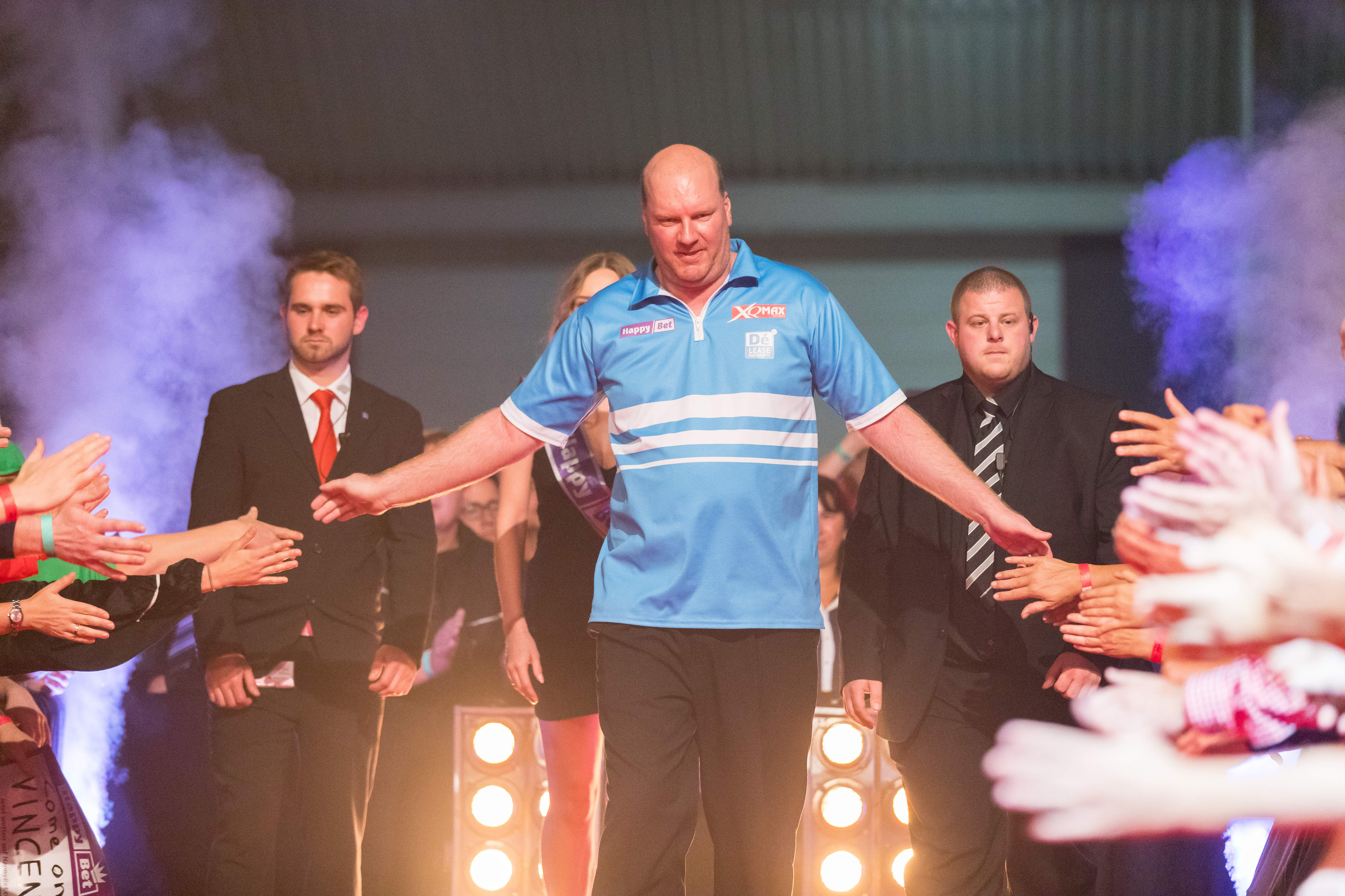 [10] Benito van de Pas (NED) 6:5 Vincent van der Voort (NED) during Professional Darts Corporation (PDC), German Darts Grand Prix (GDGP) at Maimarkthalle, Mannheim, Baden-Württemberg, Germany on 2017-09-10, Photo: Sven Mandel